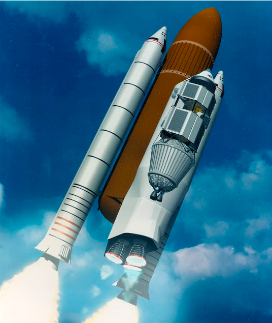 The image above is slightly confusing: it displays a piloted ILREC lander and, below that, a conical TLI stage with three engines, but does not make clear that, except for the white, black, and gray conical crew capsule at the top, both lander and stage would be hidden from view under a streamlined white launch shroud. Missing from this illustration is the solid-propellant launch-escape system tower mounted on the crew capsule's nose. Image credit: NASA